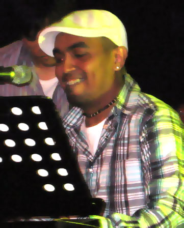 Glenn Fredly Deviano Latuihamallo aka Glenn Fredly. Indonesian singer of Moluccan descent. Performing live in the Netherlands, Europe.